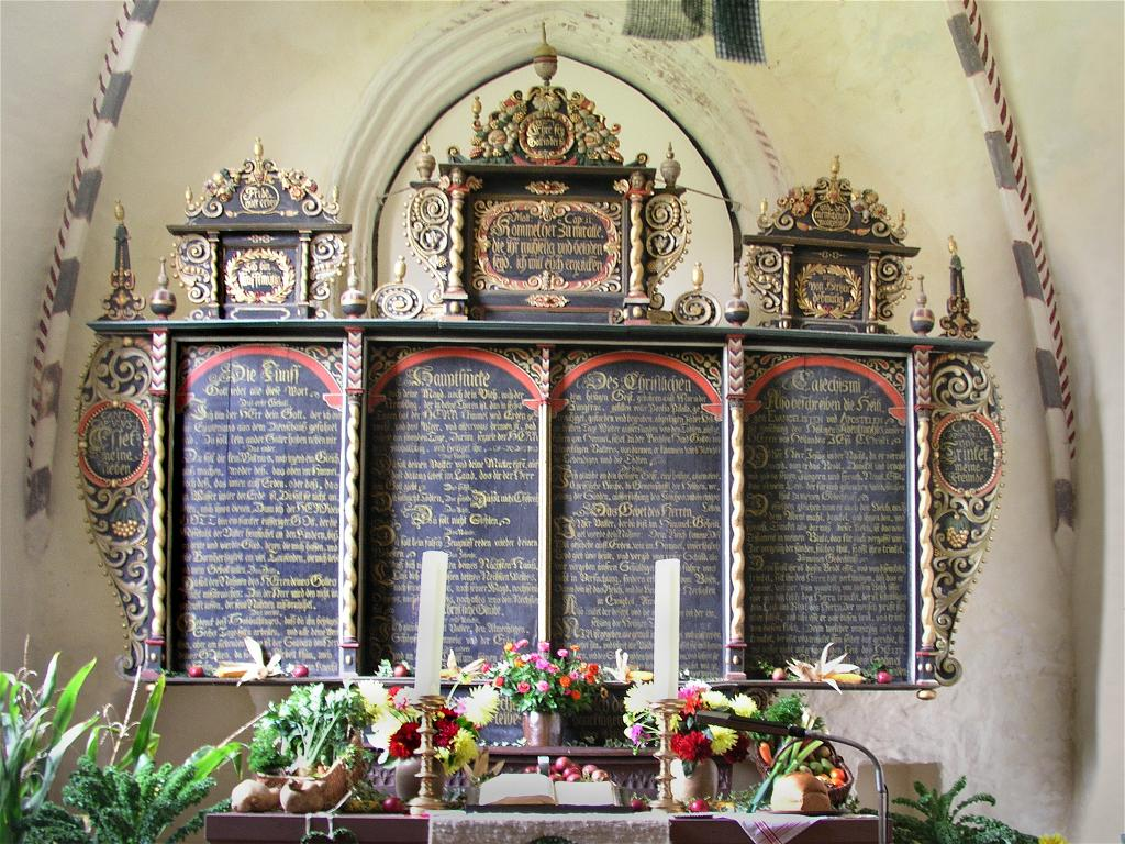 Ringstedt (Lower Saxony, Germany), church, altar , photo 2006